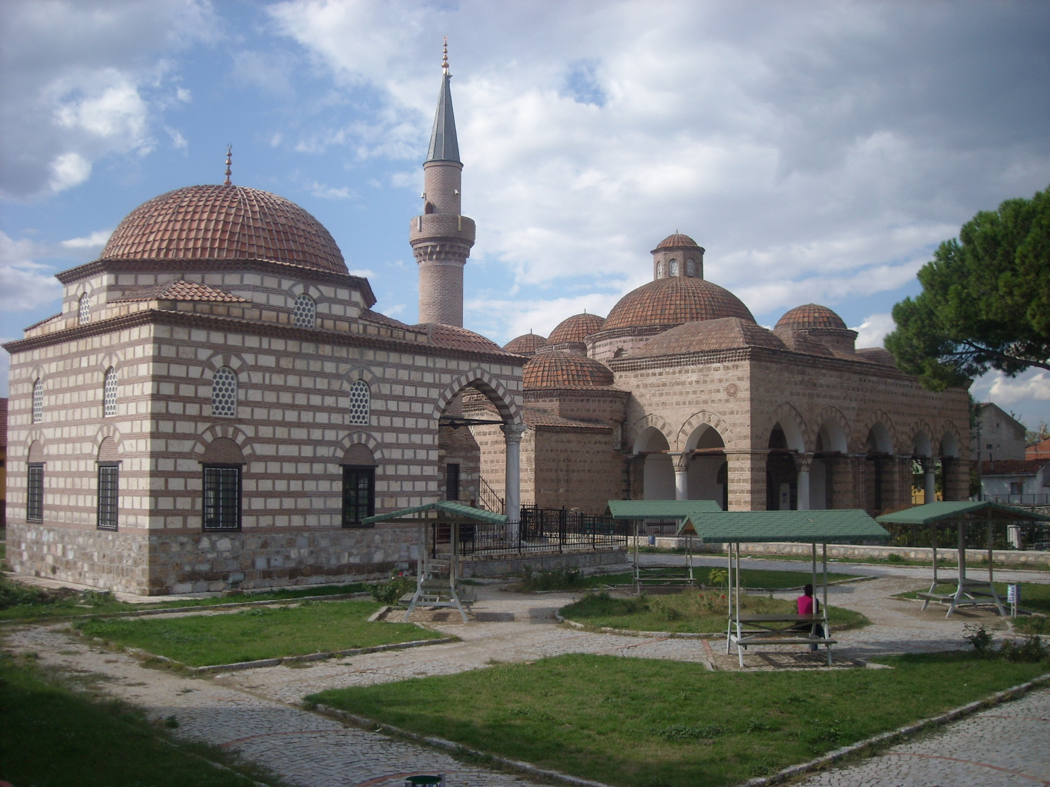 Seyh Kutbuddin Mosque and Iznik Museum